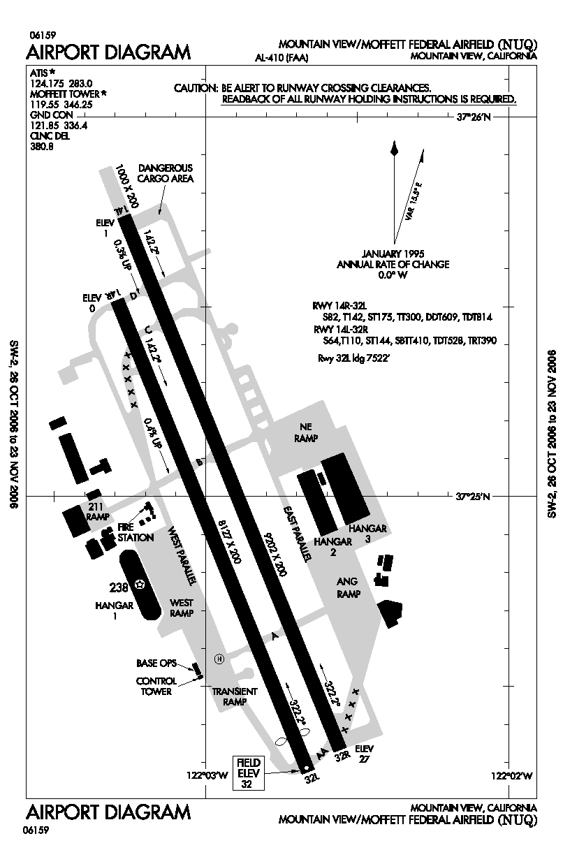 FAA airport diagram for NUQ (Moffett Federal Airfield) in California, United States.